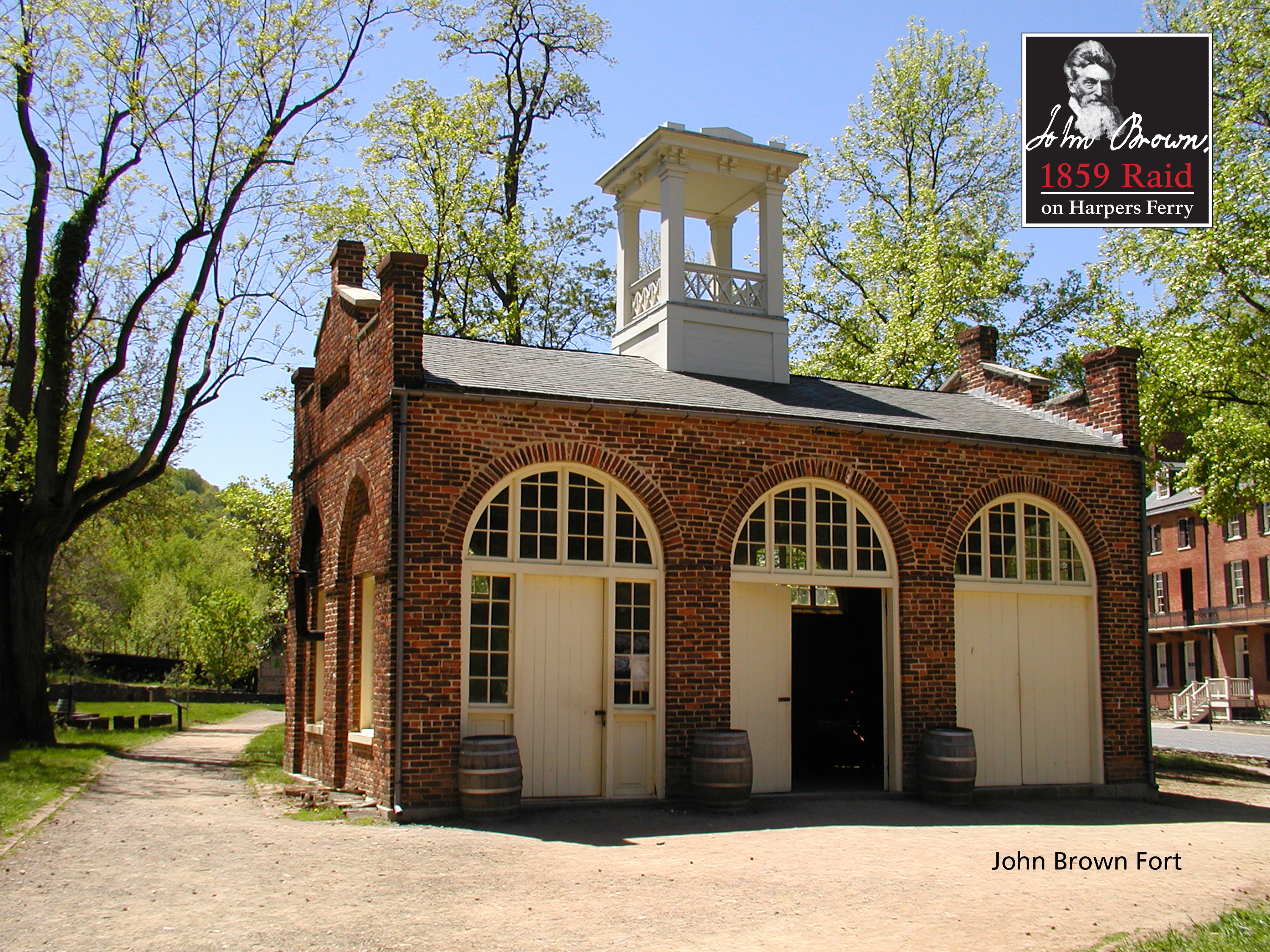 A visit to this quaint, historic community, at the confluence of the Potomac and Shenandoah Rivers, is like stepping into the past. Stroll the picturesque streets, visit exhibits and museums, or hike our trails and battlefields. There's a wide variety of experiences for visitors of all ages, so come and discover Harpers Ferry